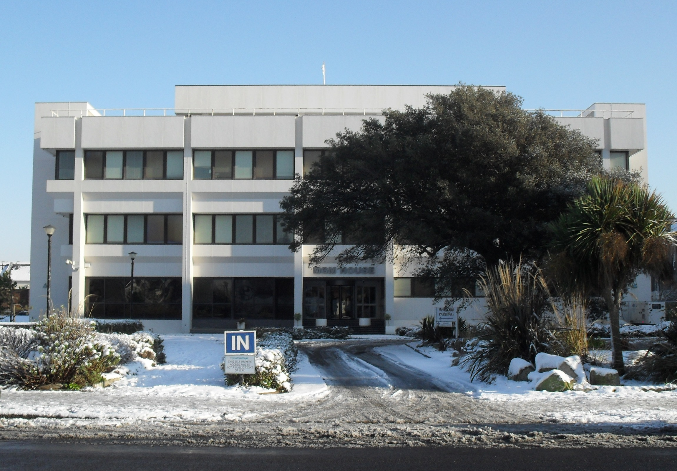 MGM House, Heene Road, Heene, Worthing, West Sussex, England. The headquarters of MGM Assurance.